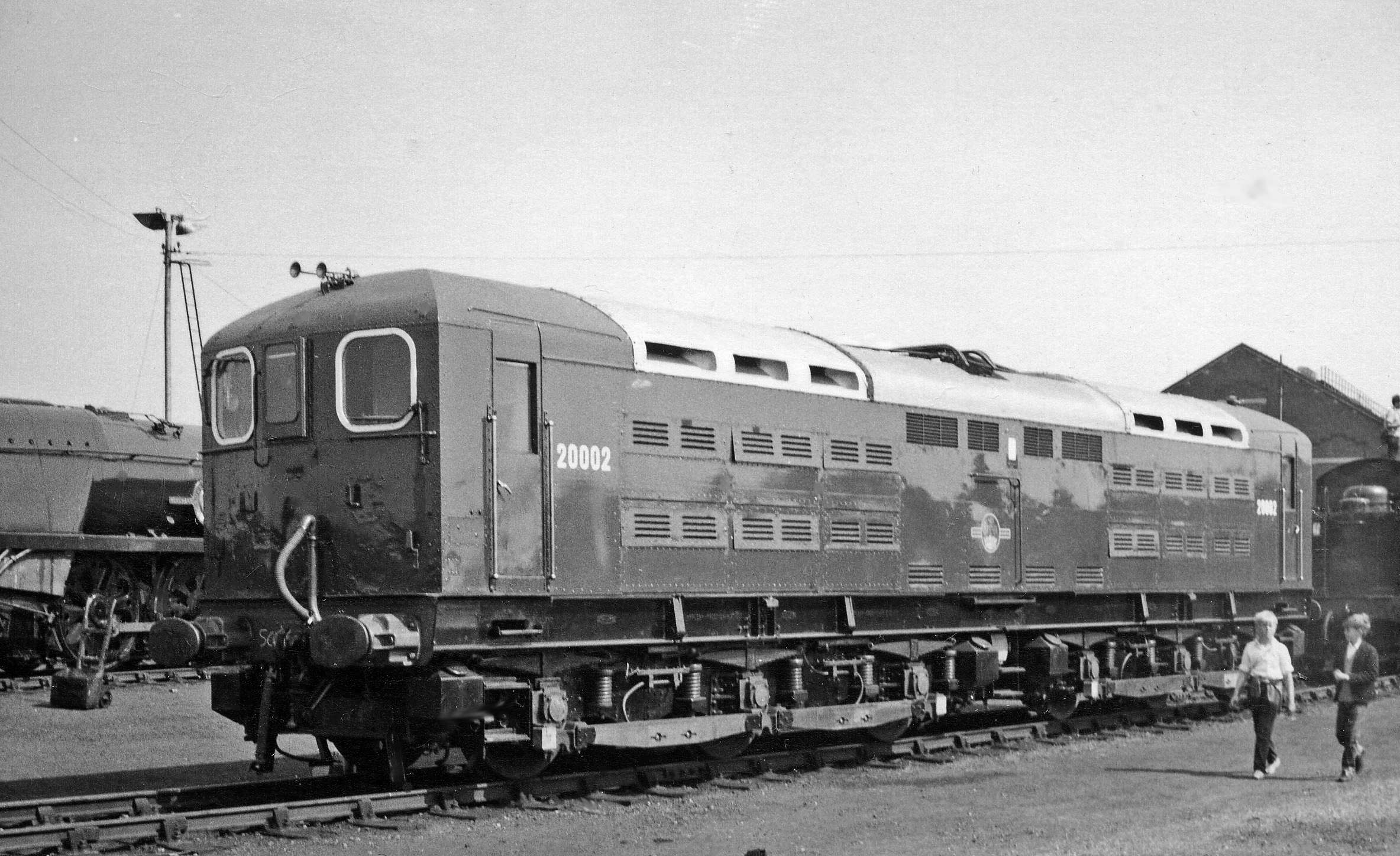 Pioneer Southern Railway electric locomotive at Eastleigh Works. At the Works Open Day in August 1964, the second of the SR's 660 V 1,470hp Class CC Co-Co electric locomotives, No. 20002 built in 1942, is on display.